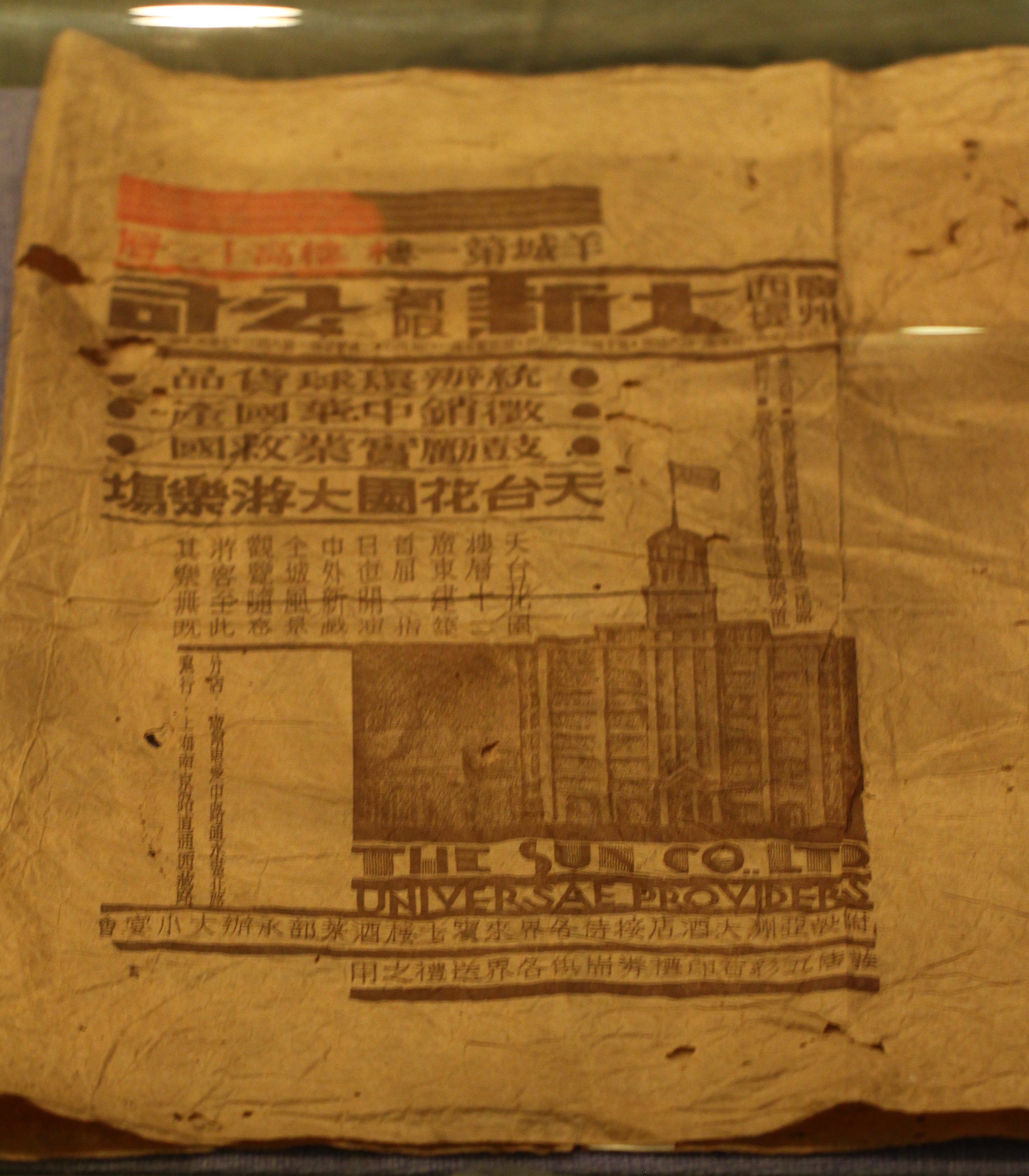 The Sun Co., Ltd. in West Bund, Canton, China.